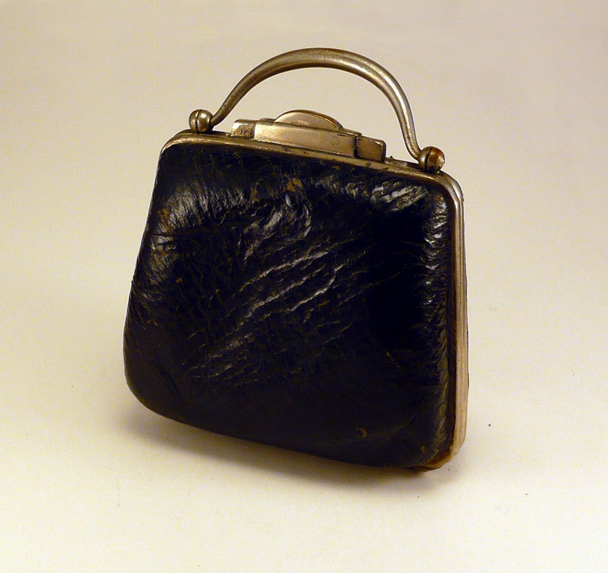 Travelling inkwell French bag 19th century